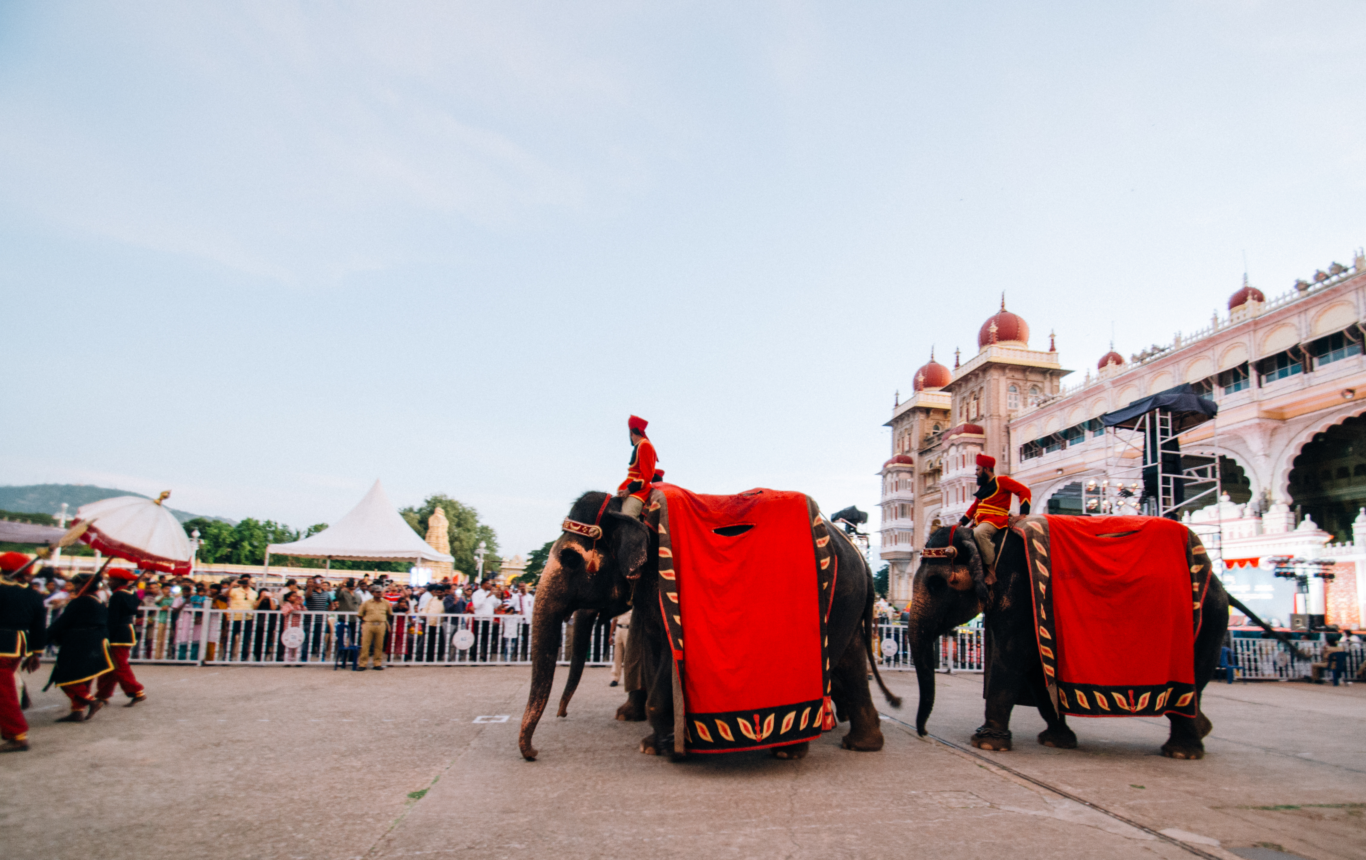 Mysore Palace Dussera